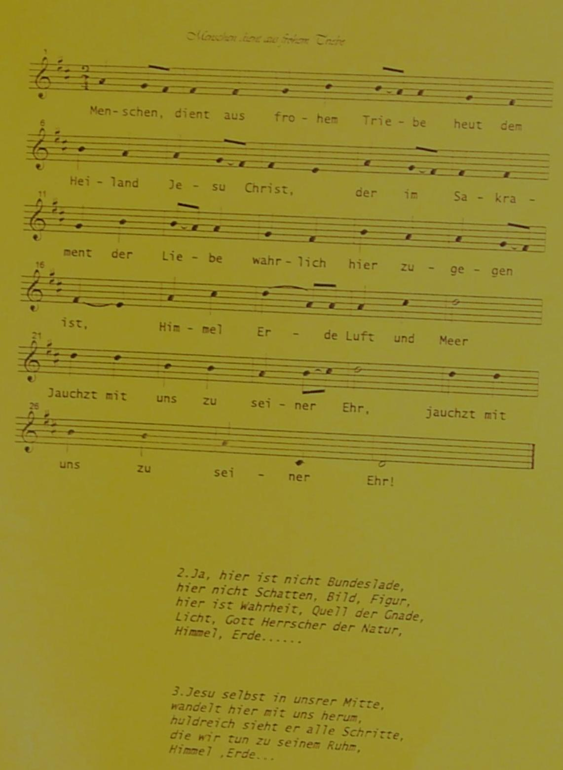 This hymn is used in a roman catholic parish in Germany. It is from a 1810 hymnal by the priest Christoph Bernhard Verspoell from Muenster, now Northrhine-Westfalia, Germany.